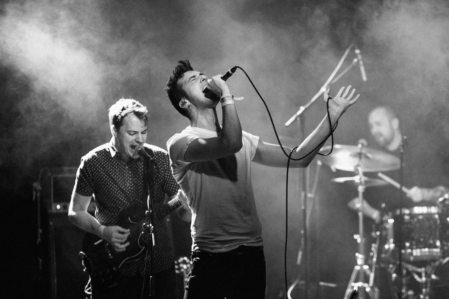 Carnival Kids performing live at by:Larm 2017